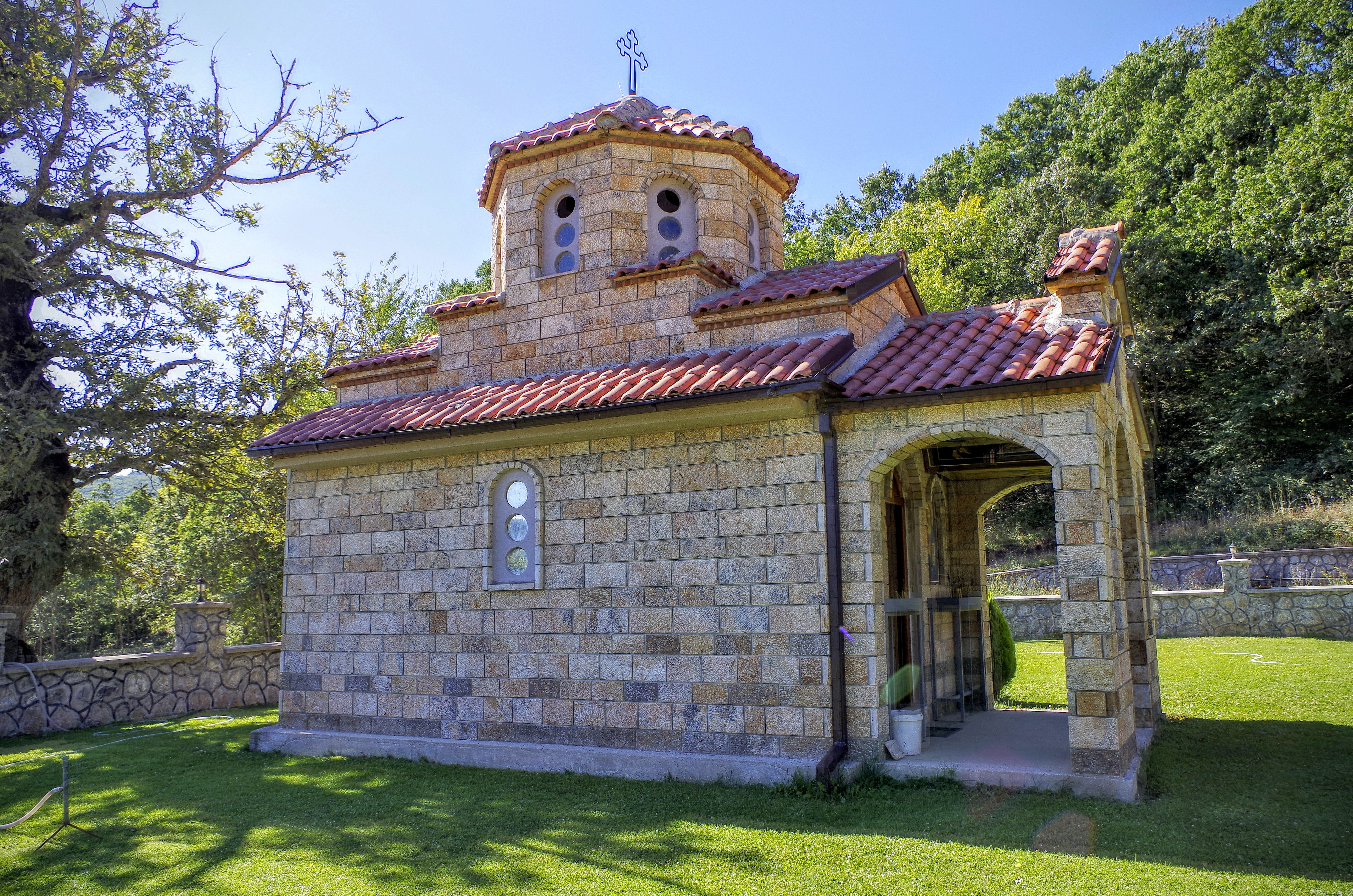 New Church of the Theotokos in the village Botun, Macedonia